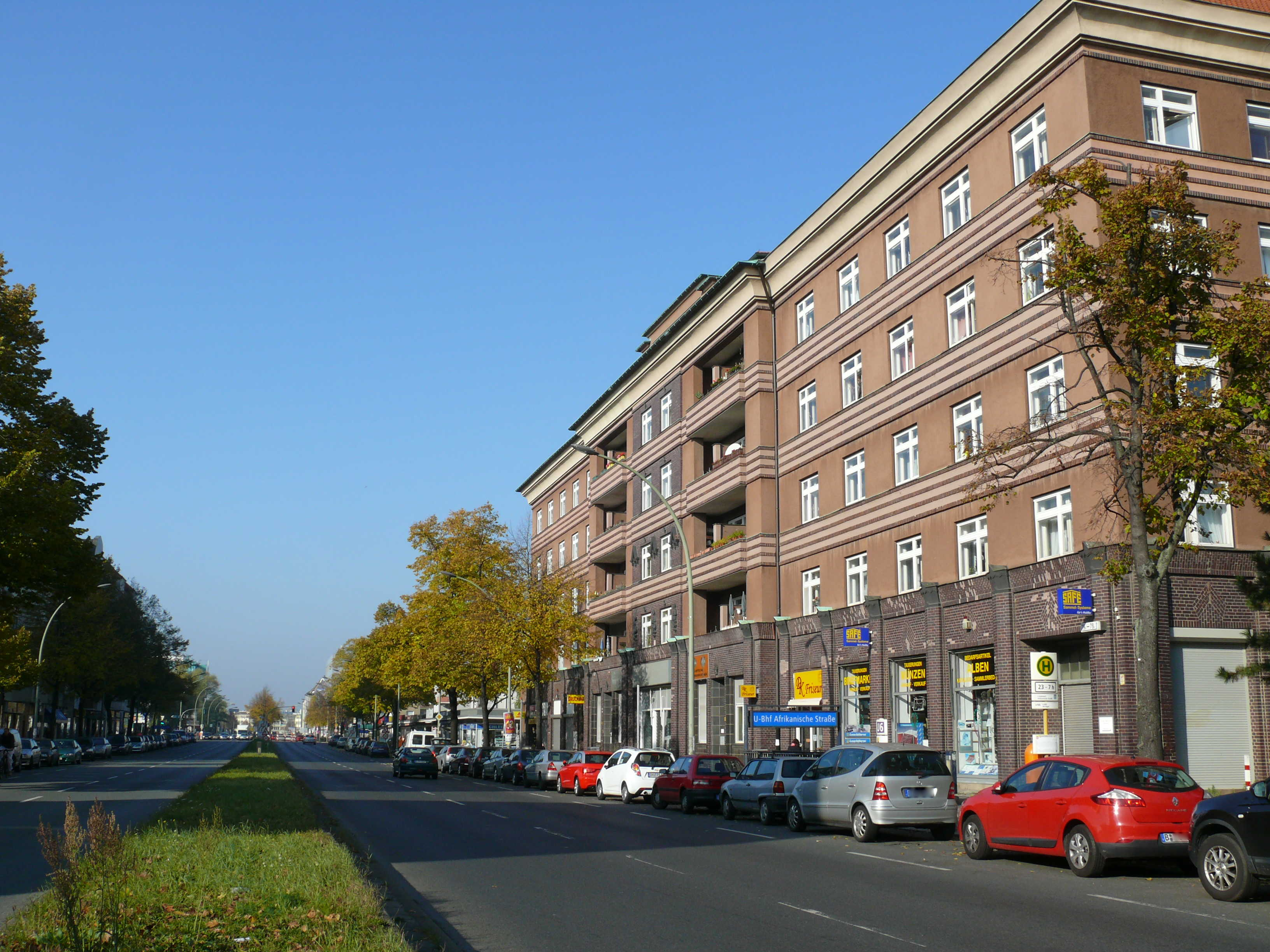 Berlin-Wedding Müllerstraße Autobus-Betriebshof